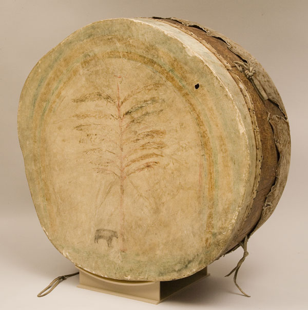 This drum was given to L.V. McWhorter in 1933 by Peo Peo Tholekt. It is believed that the drum is either Salish or Flathead in origin but that Peo Peo Tholekt painted it. The drum frame is made from a hollowed out section of a tree. The batter head design is of a rainbow, a pine tree, a bear and green earth. The reverse head is stained with raw sienna. Heads are made of rawhide attached with brass tacks and iron nails. Sometimes this type of drum is referred to as a “war drum”, but generally, it is more appropriate to call it a “dance drum”. Prior to the pow wow era these same gatherings were referred to as “War Dances”. Cottonwood (Populus tricocarpa), raw hide. Dia 83, W 35.2 cm